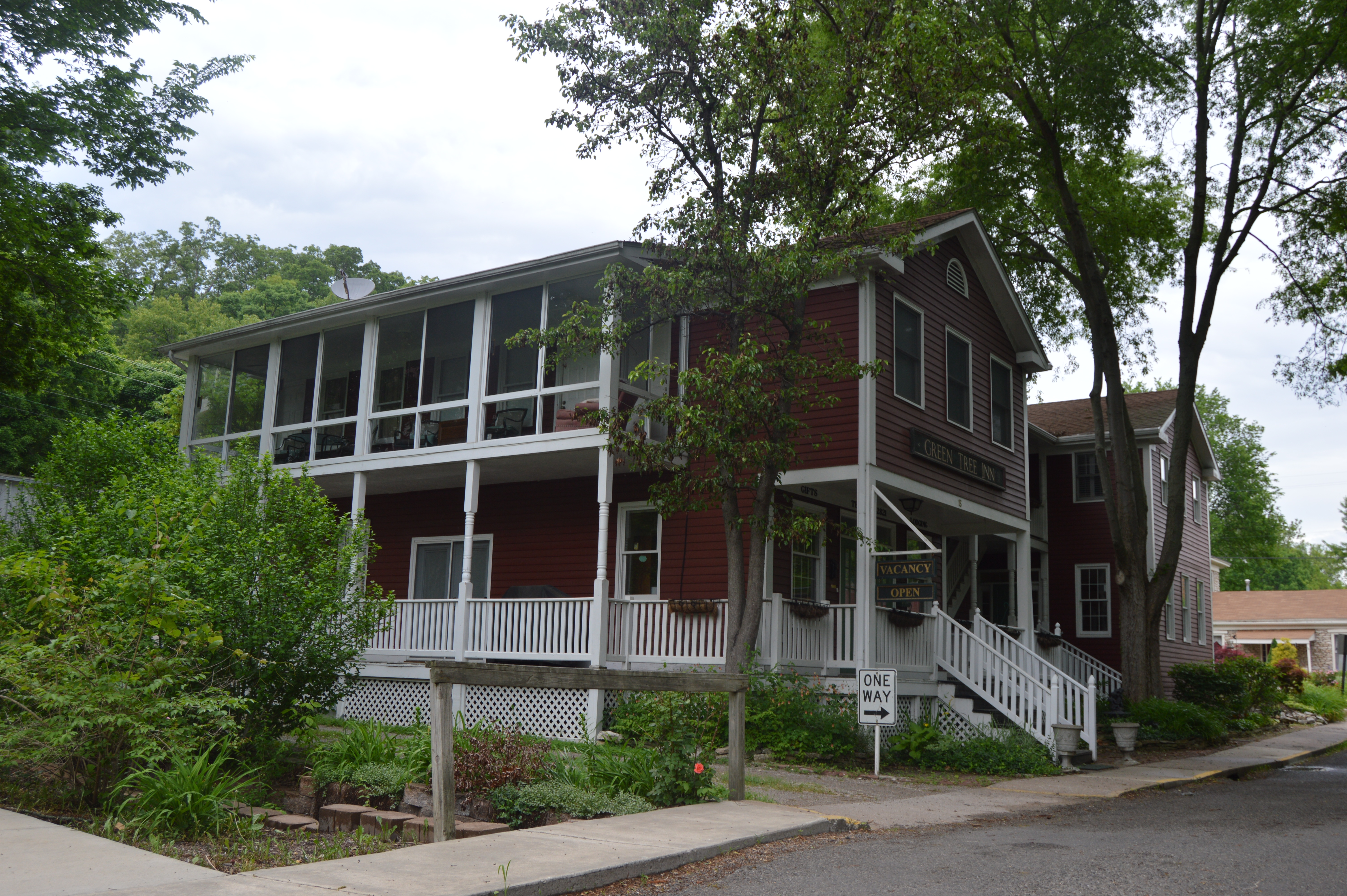 Front of the house on the northwestern corner of the junction of Mill and Selma Streets in Elsah, Illinois, United States. This house and the surrounding blocks are part of the Elsah Historic District, a historic district that is listed on the National Register of Historic Places.